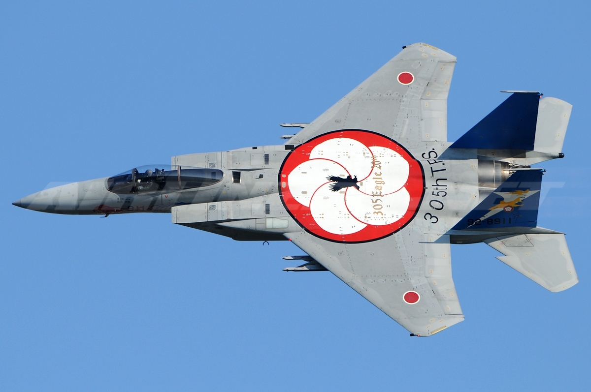 Special Marking for 7th AW, 305th SQ 20 years anniversary of Eagle.